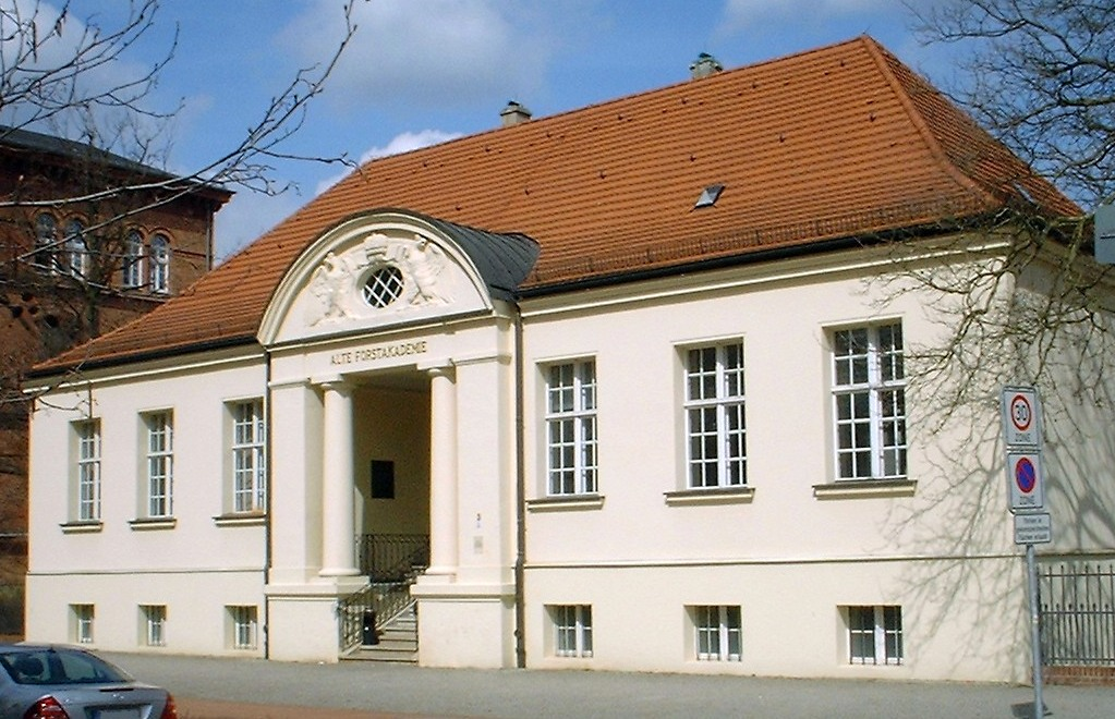 Old Forestry Academy in Eberswalde, Brandenburg, Germany